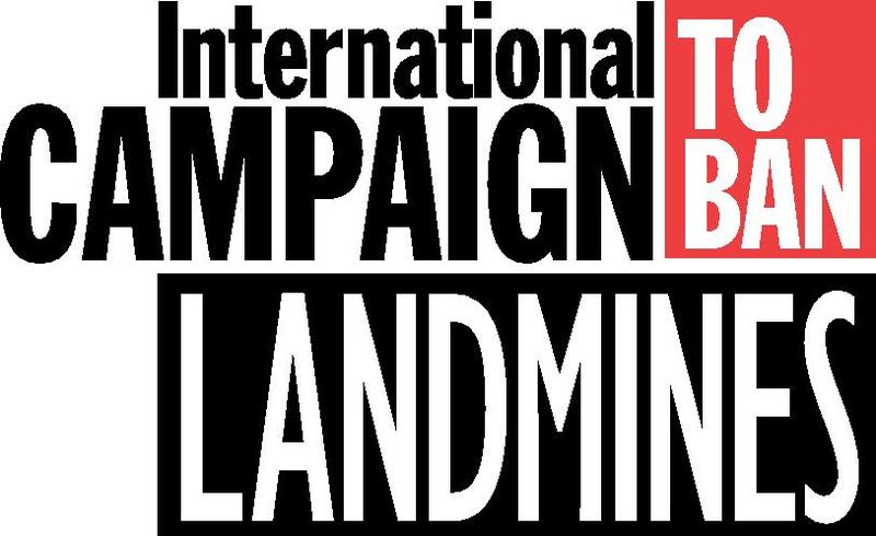 Logo of the International Campaign to Ban Landmines